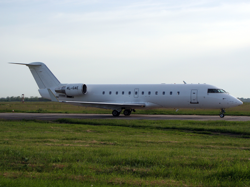 Georgian Airways CRJ-100ER 4L-GAE. This aircraft crashed in 2011